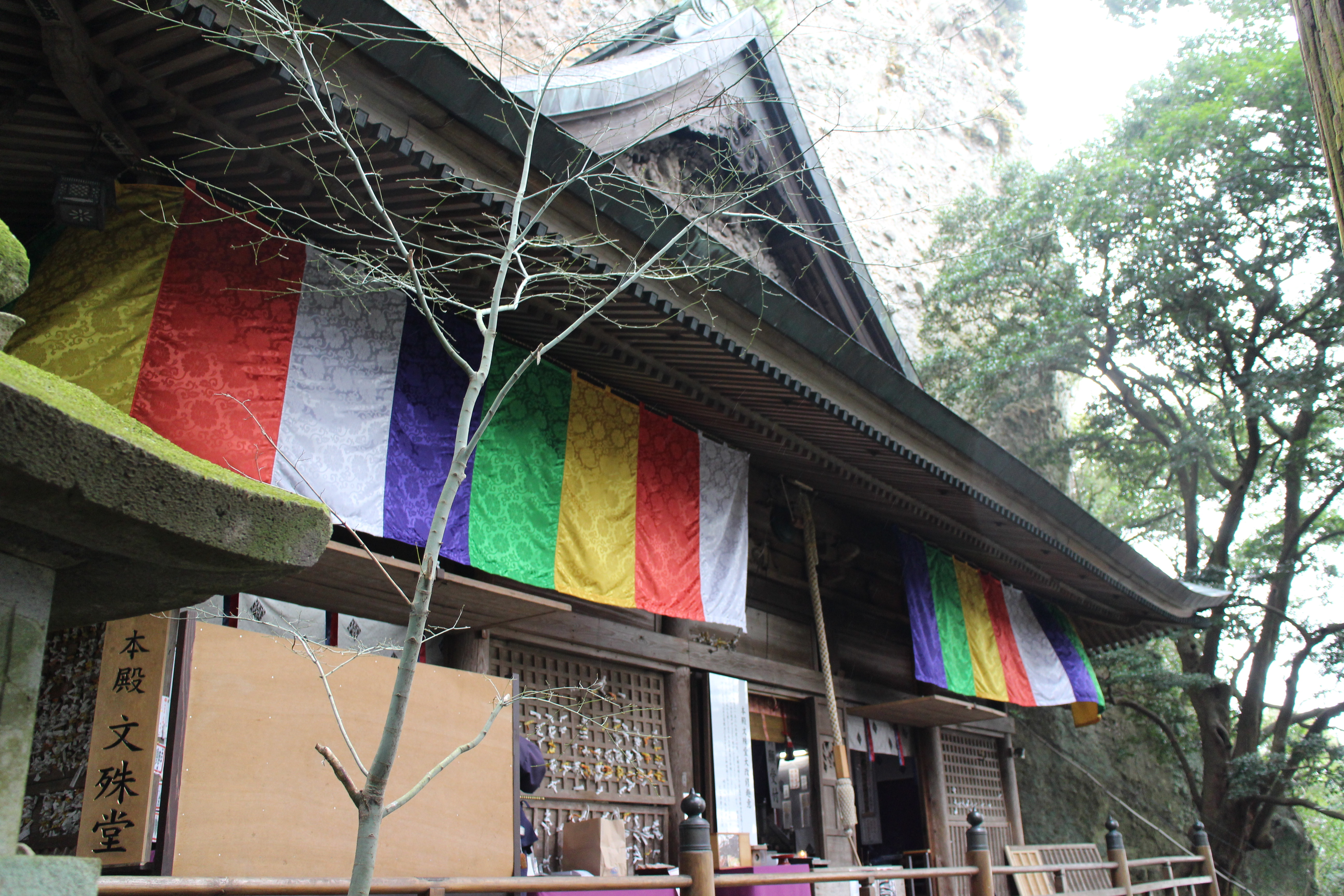 monjusenji-monjudou